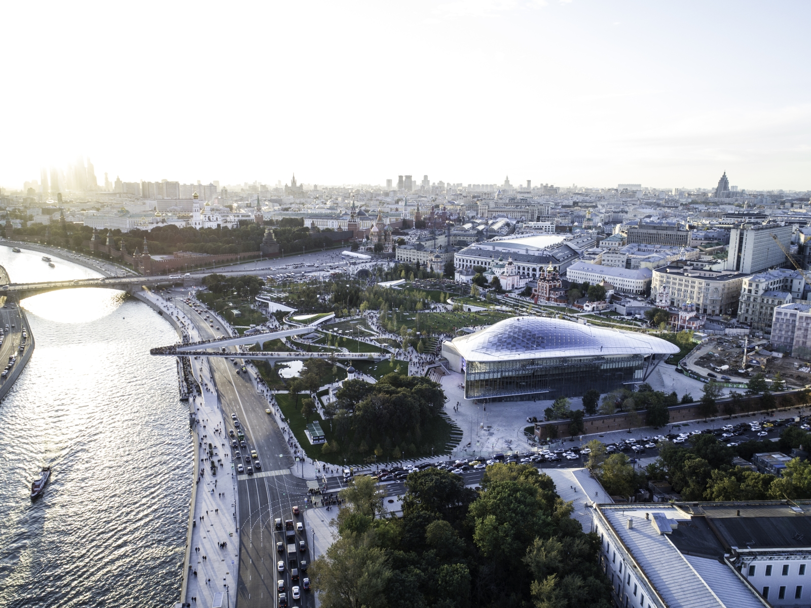 Zaryadye Park in Moscow